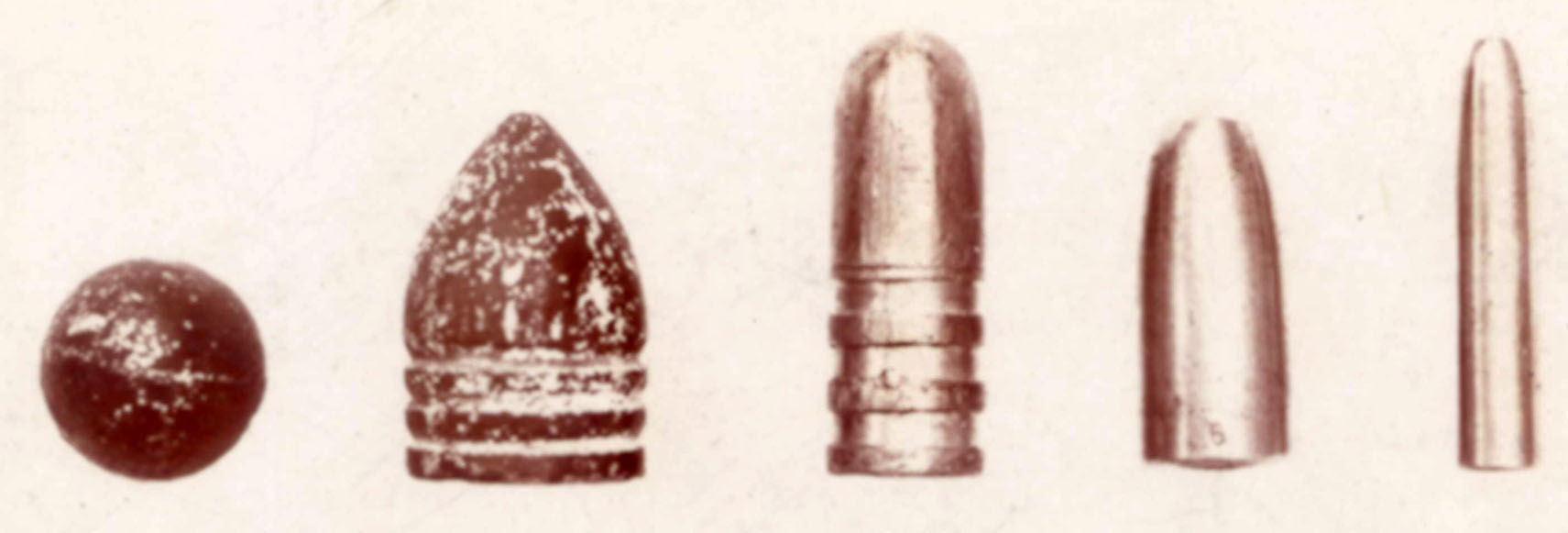 BULLETS, PROJECTILES OF VARIOUS SIZES, 5 TYPES. CIVIL WAR - WWI